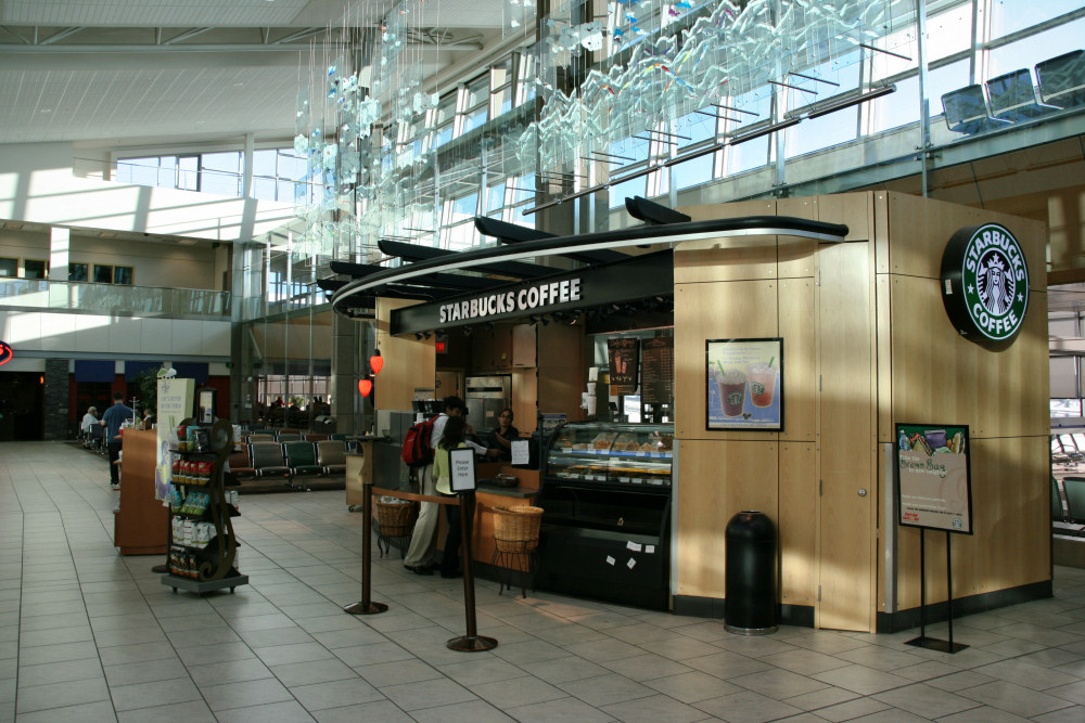 Starbucks Coffee inside Calgary International Airport terminal.